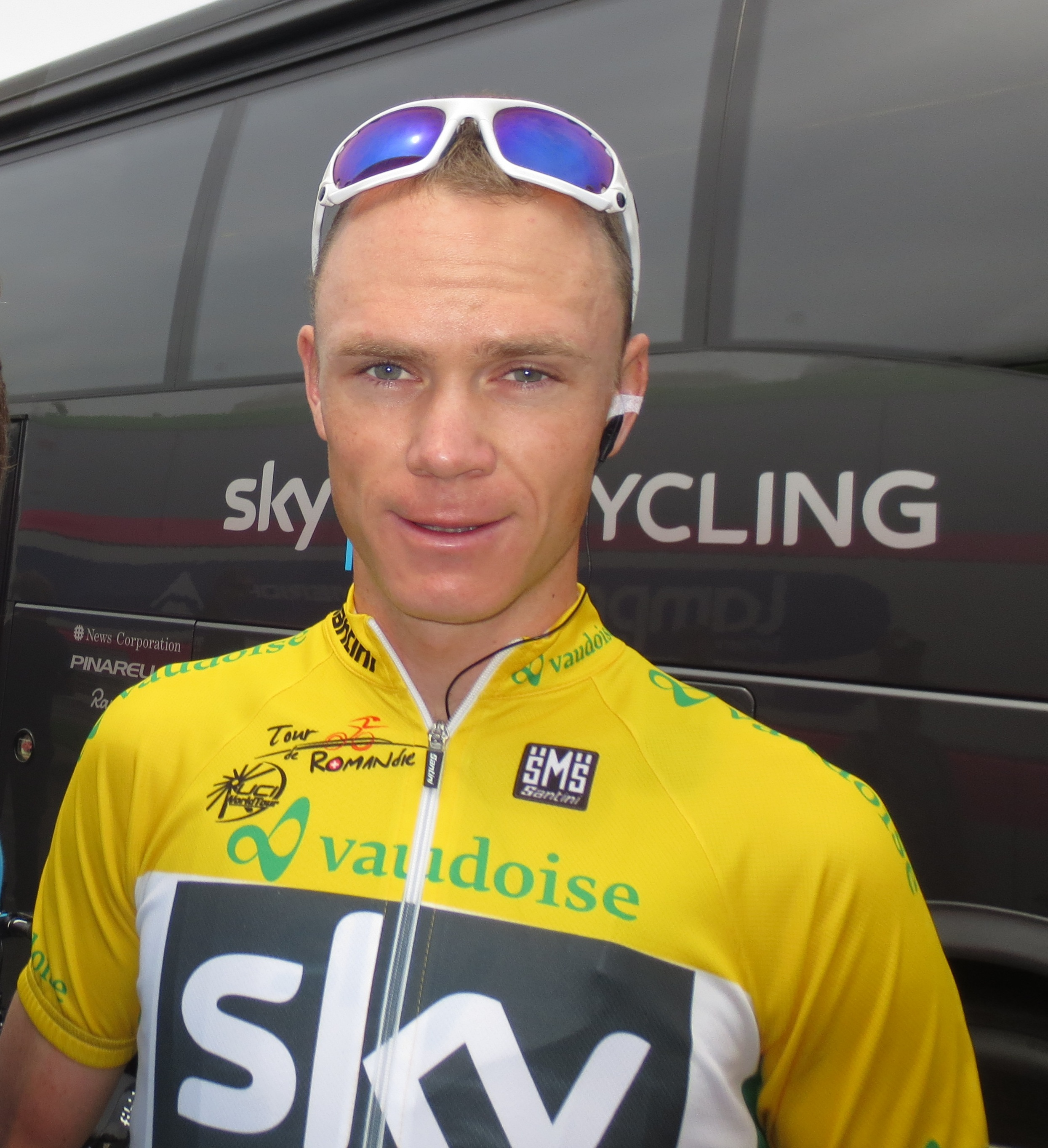 Chris Froome with the yellow jersey, Tour de Romandie 2013